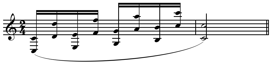 Blind octave passage according to Harvard Dictionary.